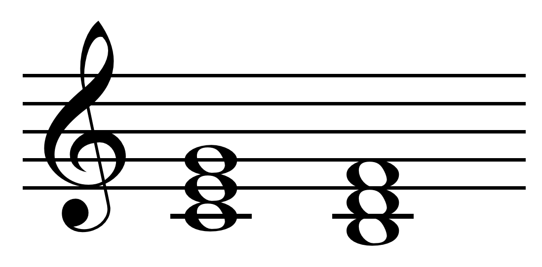 Tonic and leading tone chords in C. C major and B diminished (b°) chords.